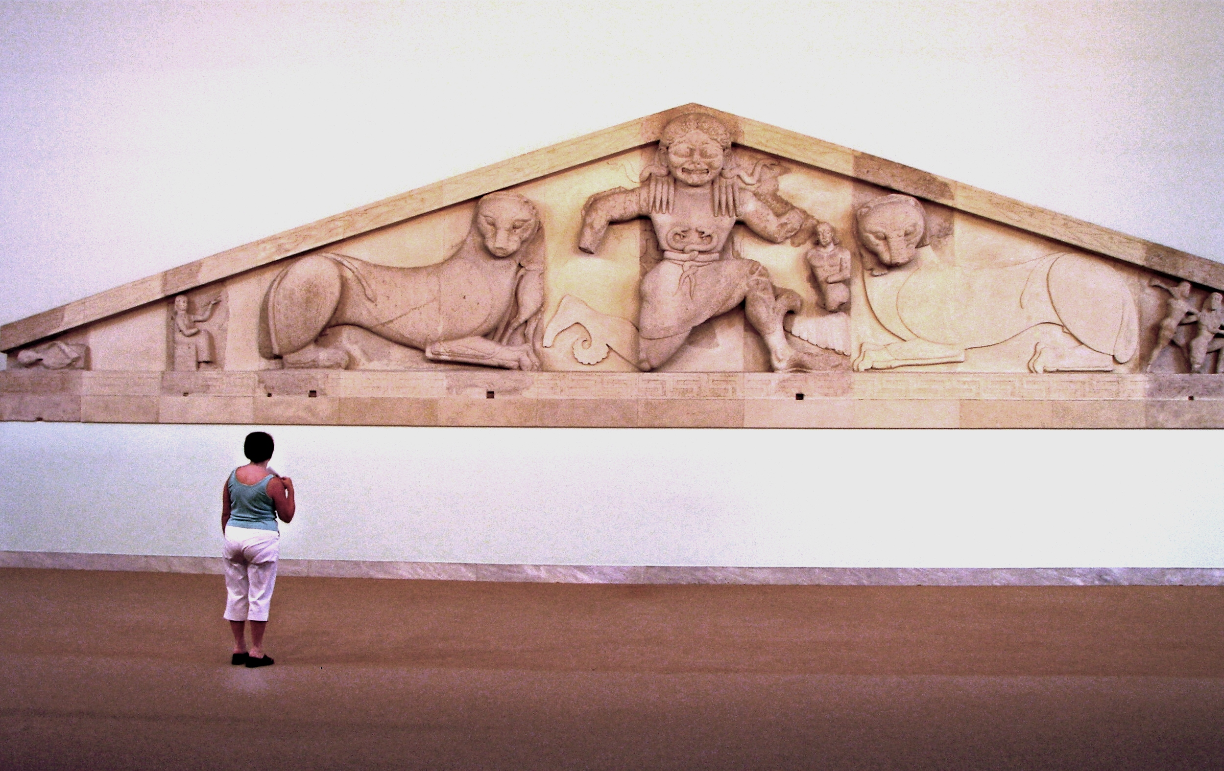 Please see filename